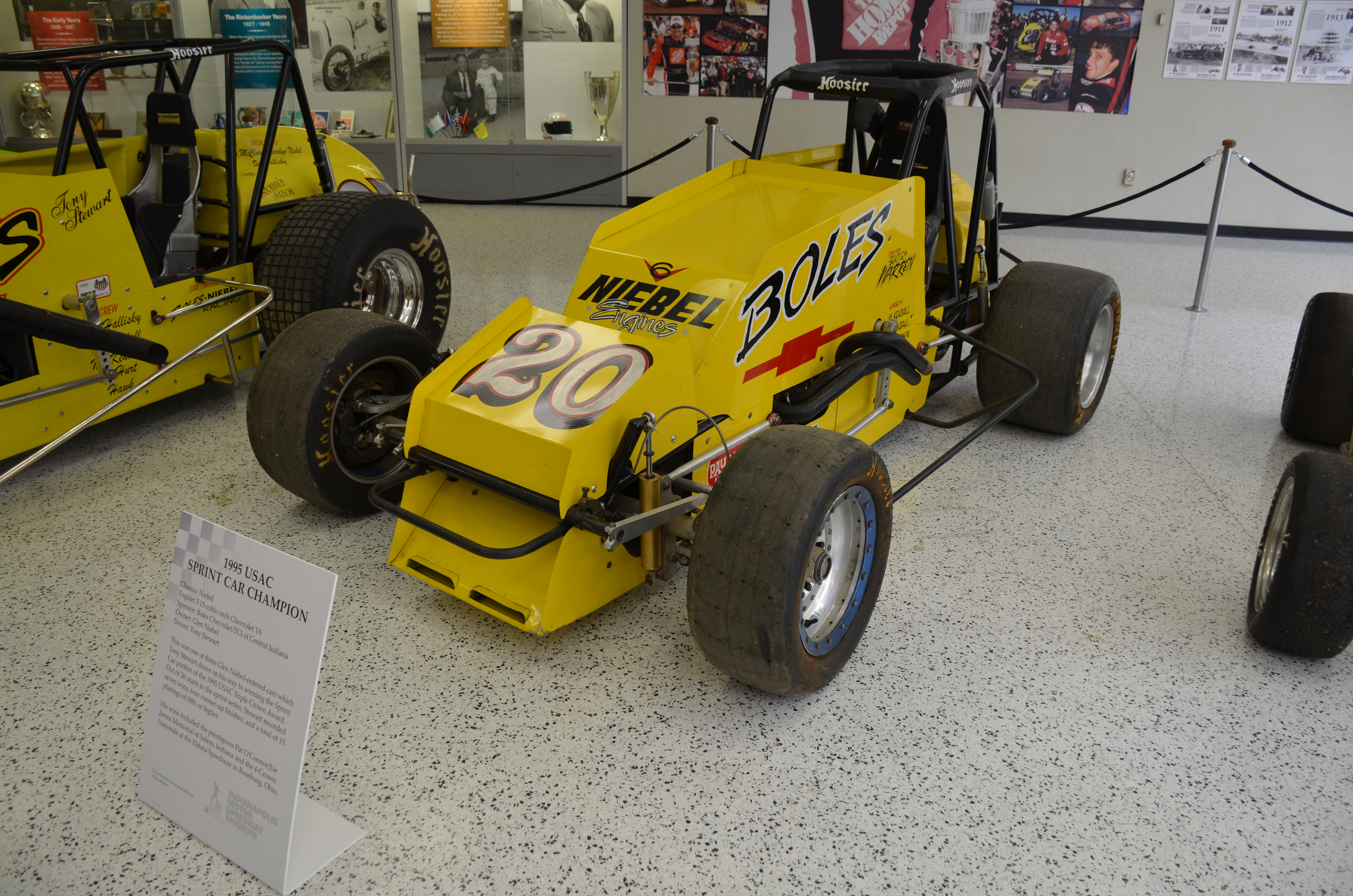 Tony Stewart's 1995 Sprint Car Championship car ("Triple Crown"). On display at the Indianapolis Motor Speedway Museum in 2016.